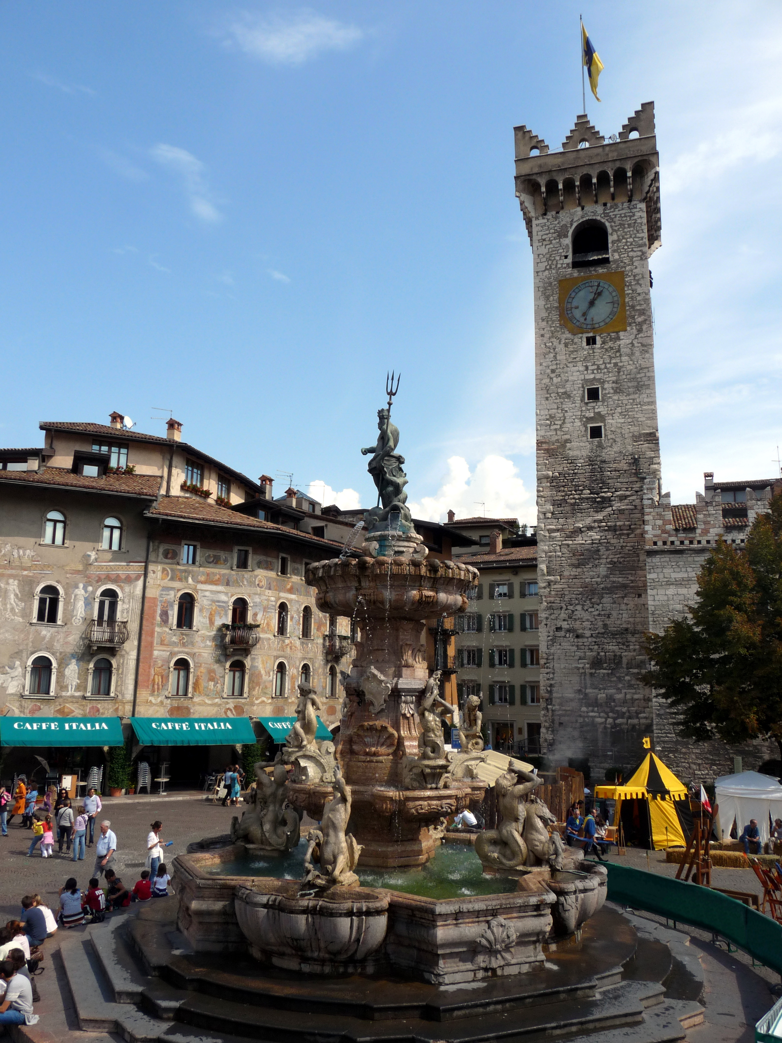 Trento (Italy): the Fountain of Neptune and Torre civica in Piazza del Duomo from south-west